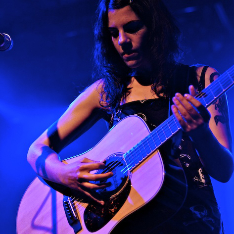 Terra Naomi Live Concert